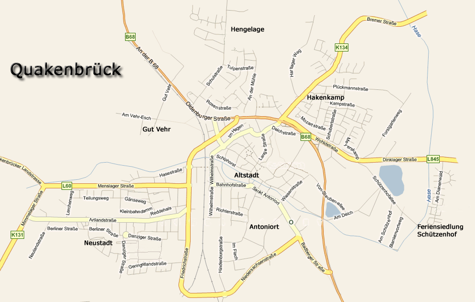 map of the German city of Quakenbrueck